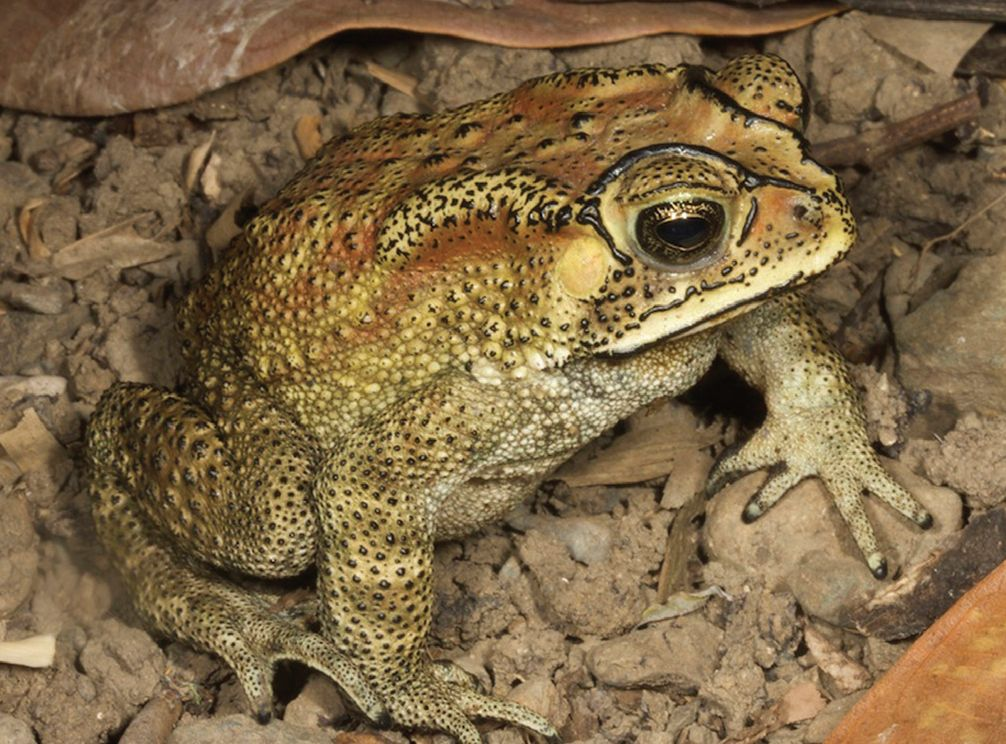 Duttaphrynus melanostictus. Yellow morph from Same, Manufahi District.